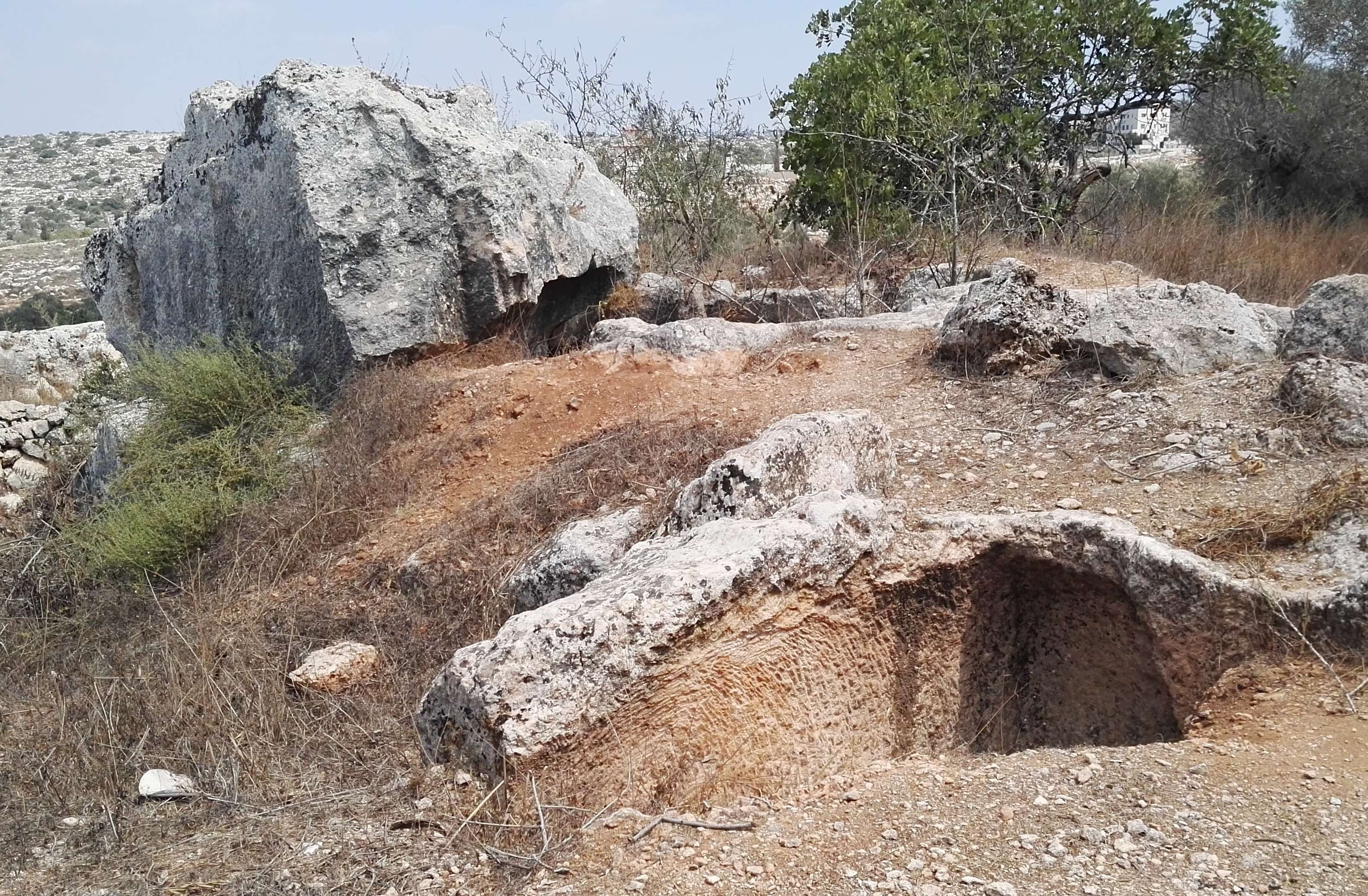 Mukata Abud - 2nd Temple period Jewish necropolis near the West Bank village Abud.